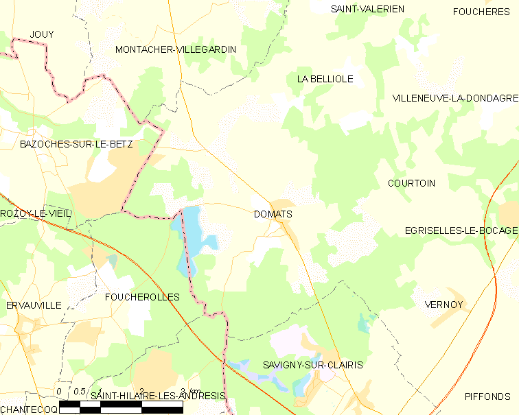 Map of French municipality Domats